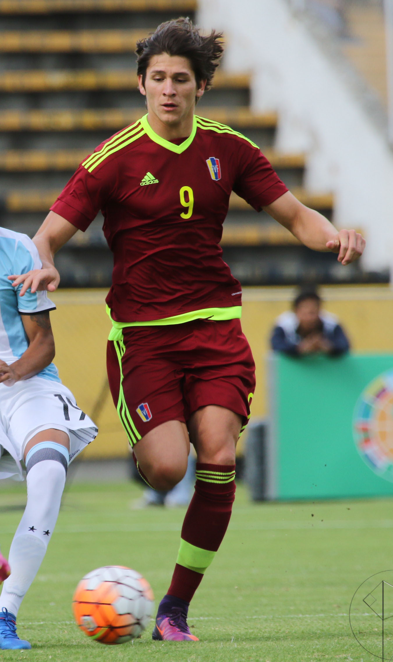 ARGENTINA VS VENEZUELA SUB 20